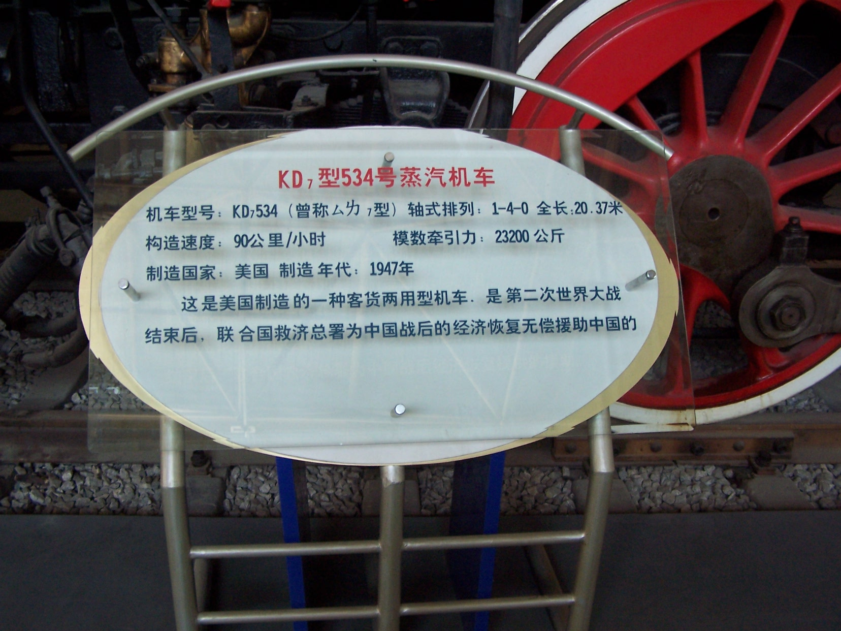 A 2-8-0 steam locomotive manufactured by Baldwin Locomotive Works, Jan 1947 (serial number 73263) displayed in Beijing Railway Museum, China. It belongs to UNRRA's post-war aid to China.